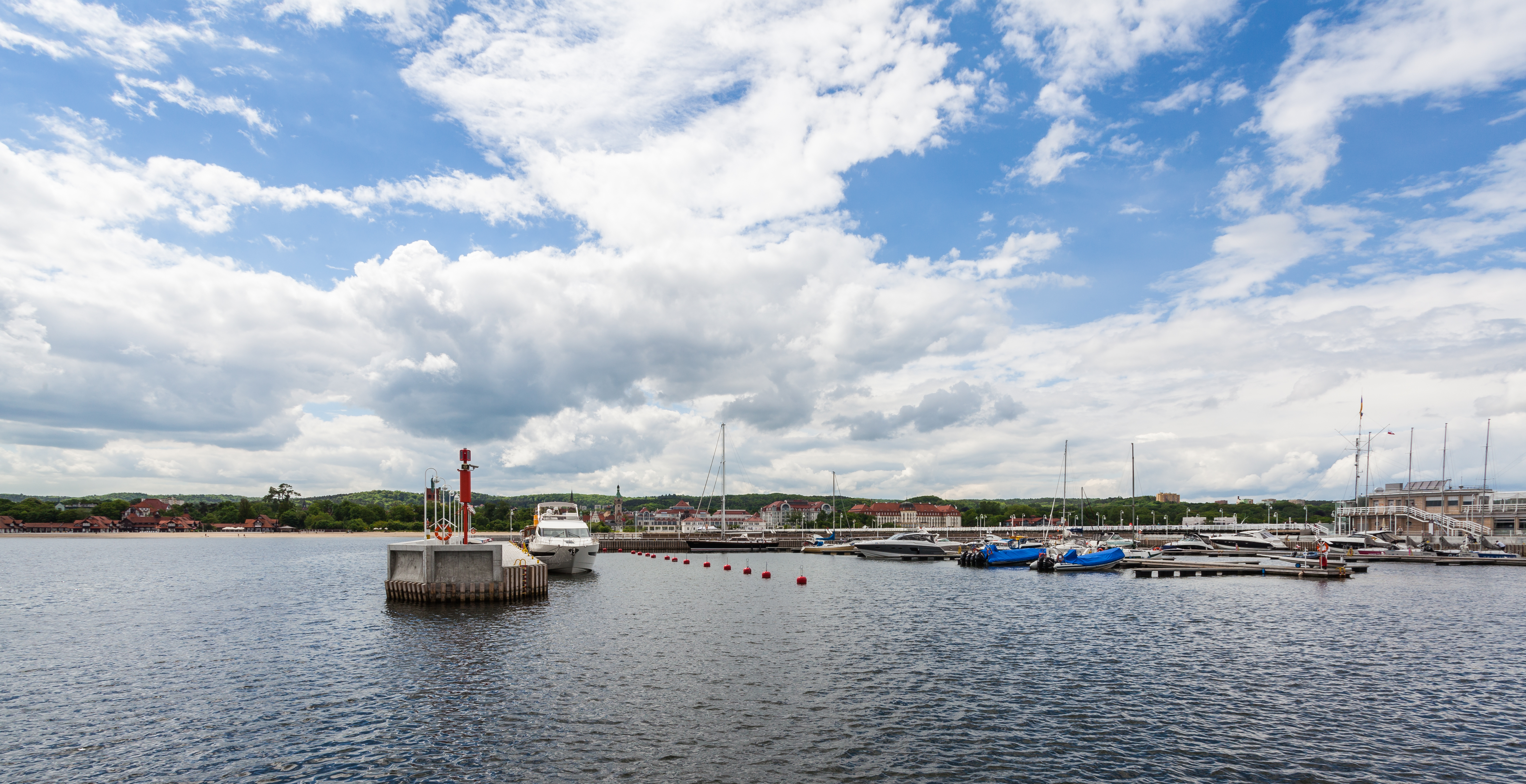 Promenade pier of Sopot, Poland